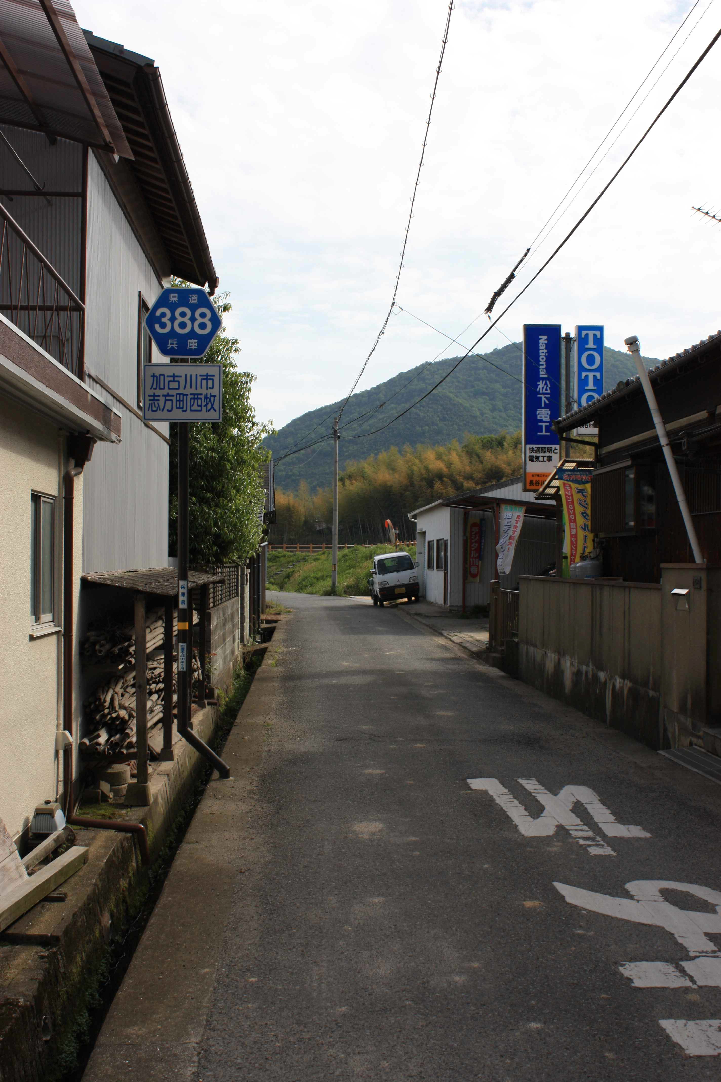 Hyogo prefectural road No.388